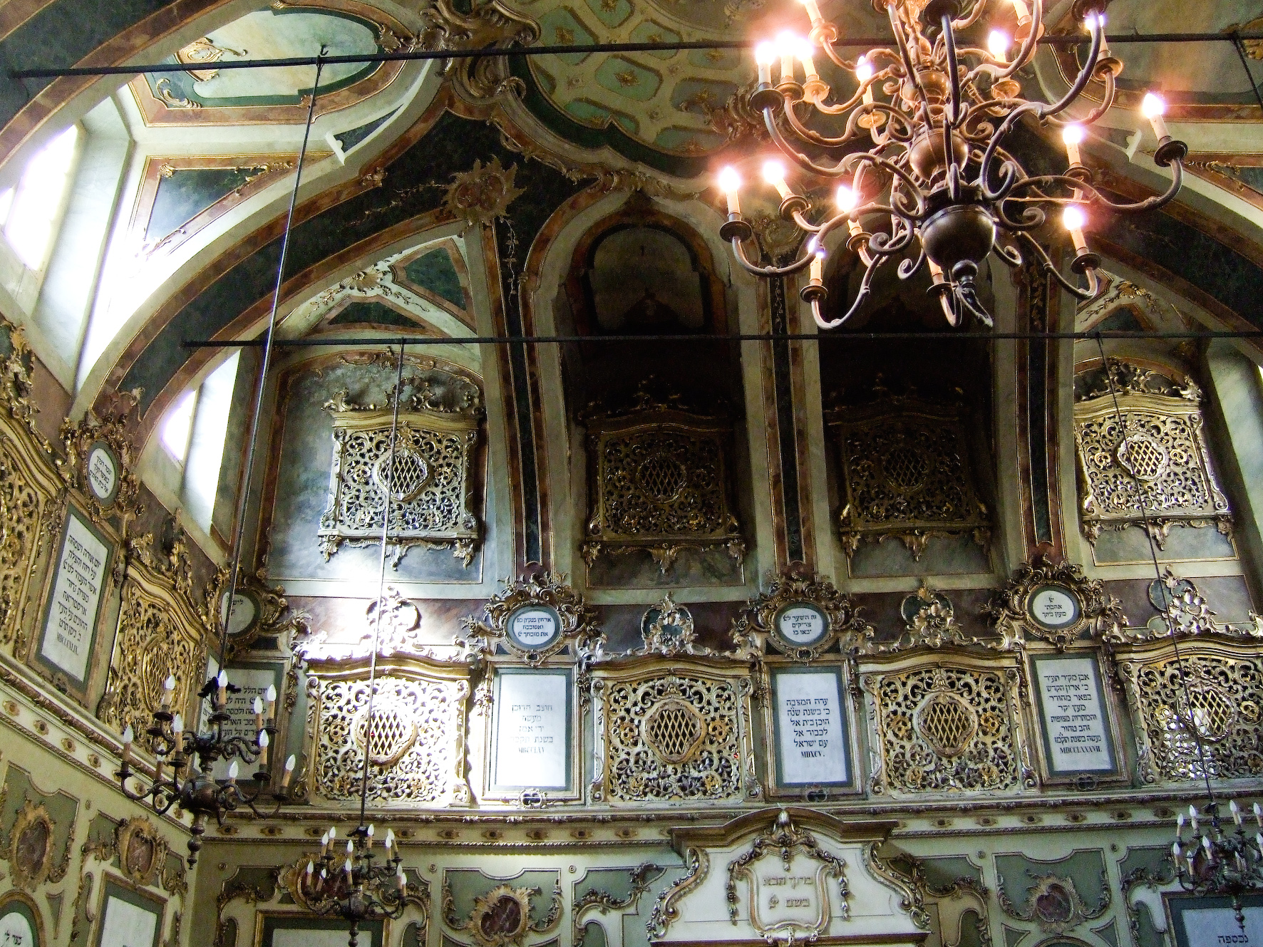 Interior view of the synagogue in Casale Monferrato (Piedmont). The prayer room has been in use since 1599; it was restored in 1968 in original colours. See Annie Sacerdoti, Guida all'Italia ebraica, Venezia 2003).